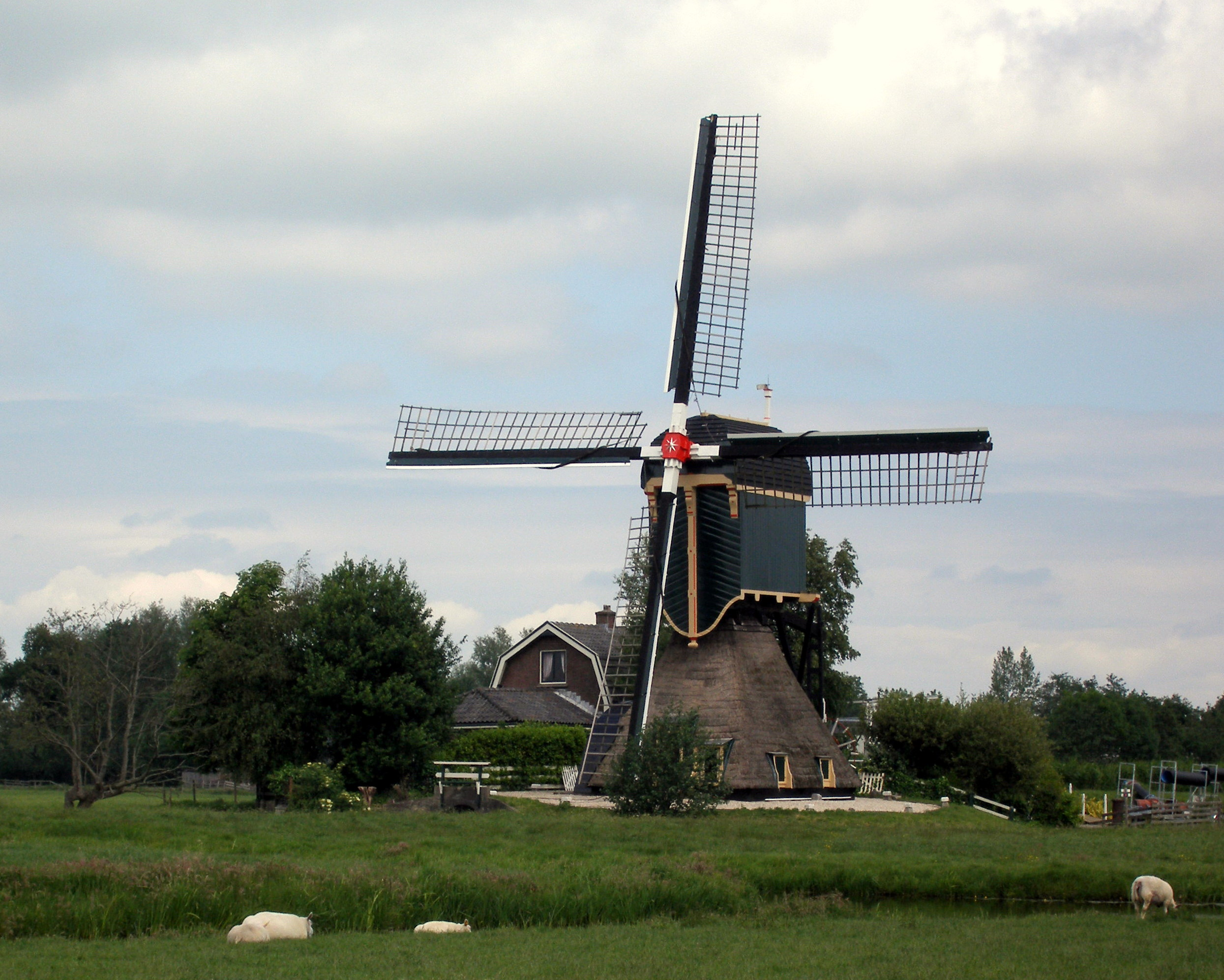 Dutch windmill Kockengense Molen, in Kockengen. It was built in 1675 to drain the polder.